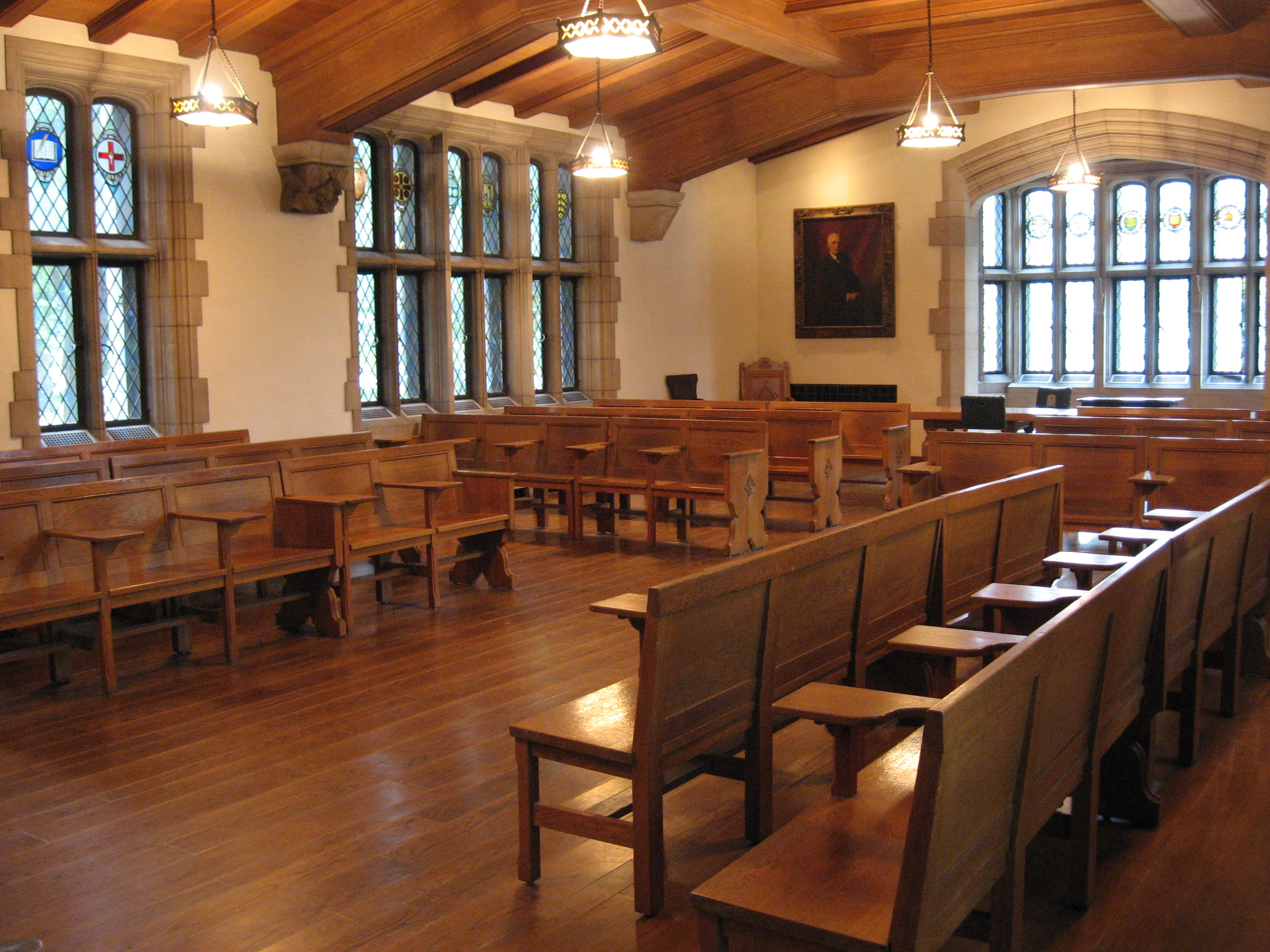 English Nationality Room of the Nationality Rooms at the University of Pittsburgh's Cathedral of Learning